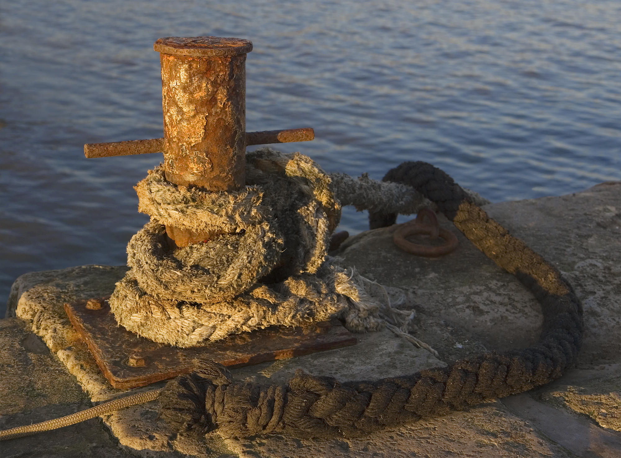 Mooring bollard at sunset, Lyme Regis, Dorset, UK.